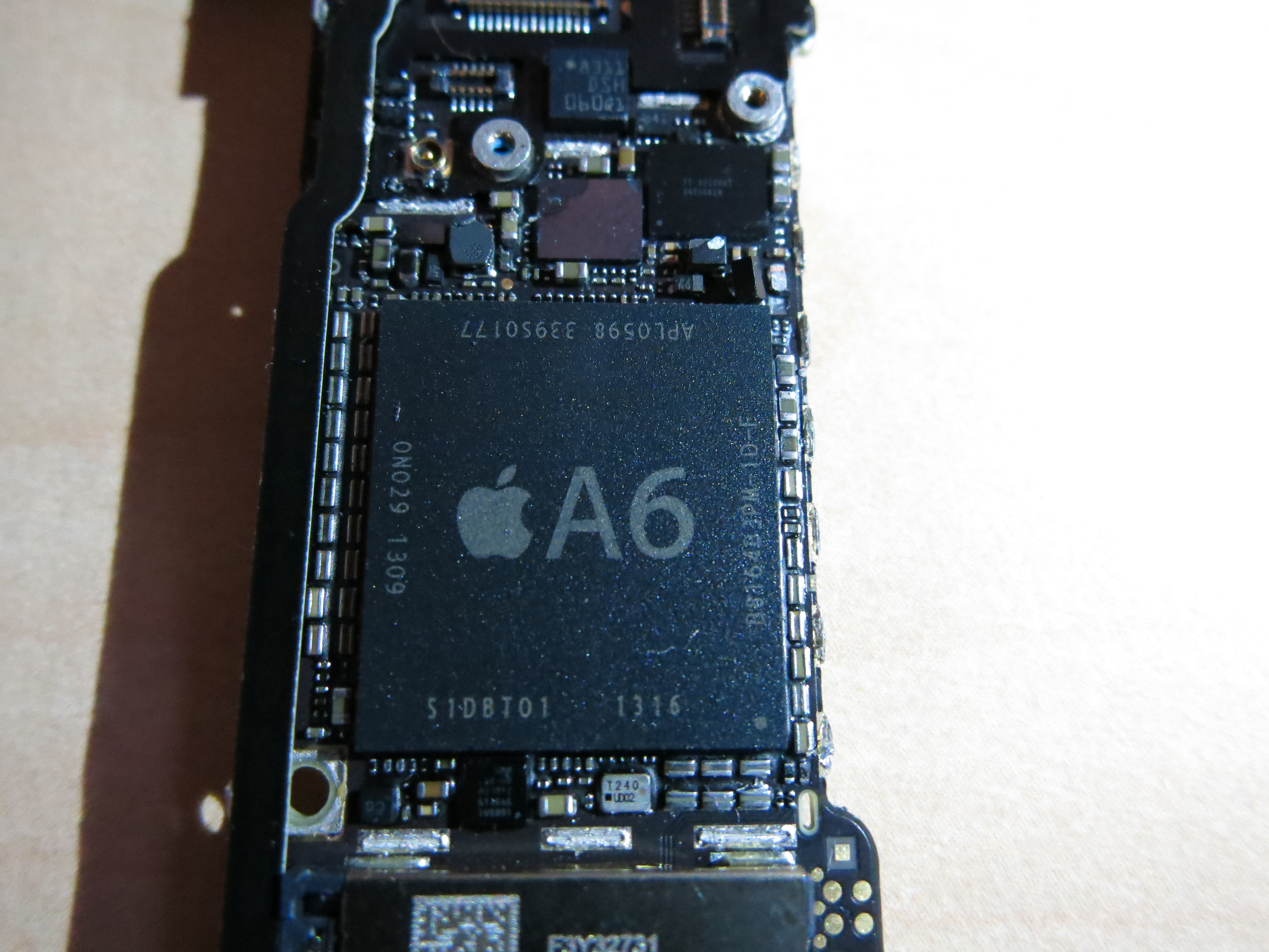 Samsung S5L8950 SoC in an iPhone 5